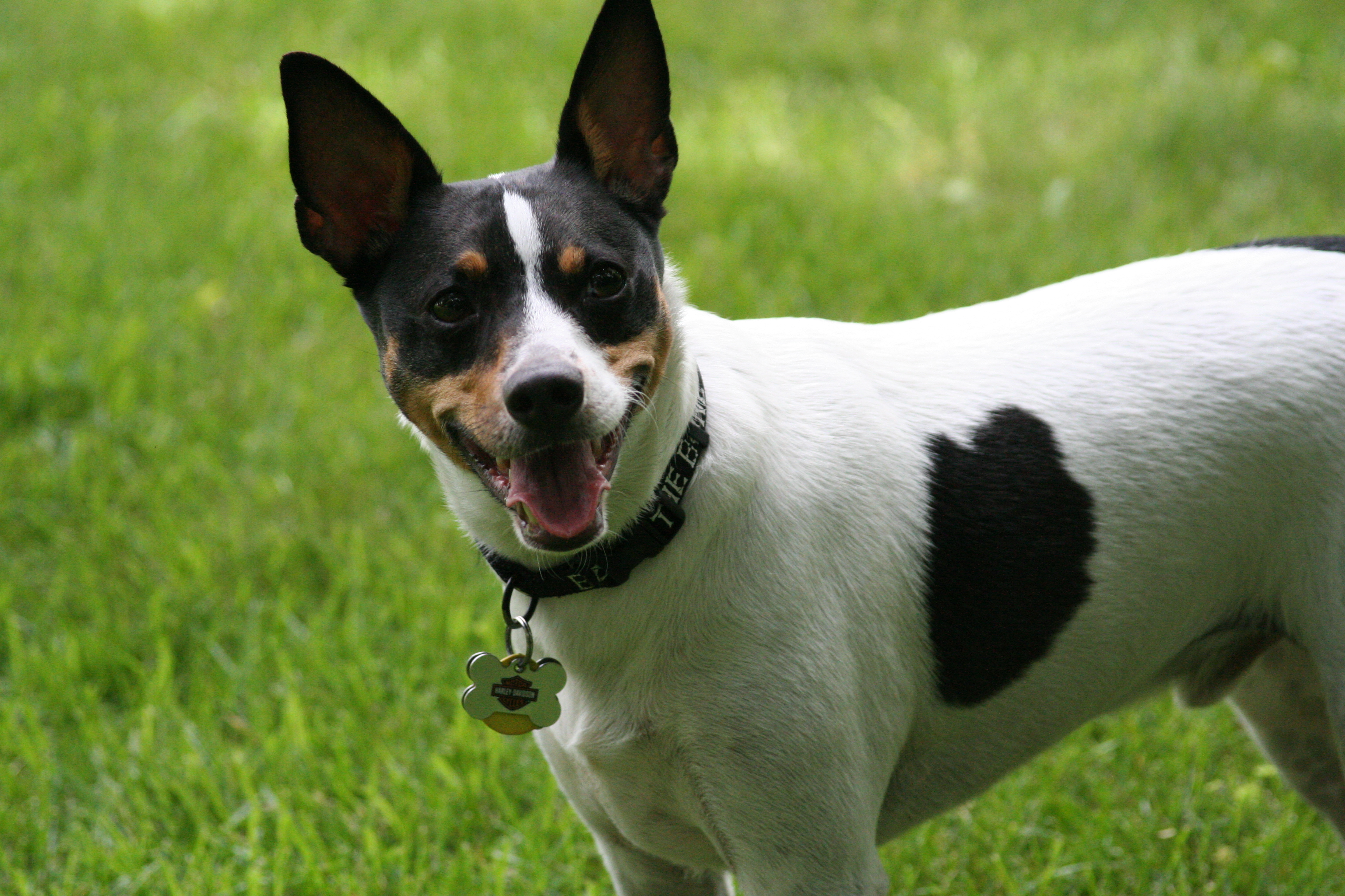 Photo taken of Rat Terrier, "Shorty," demonstrating upright ears.